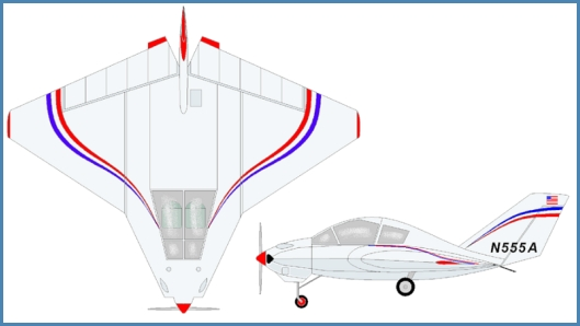 Dyke JD2 Delta Flying Wing